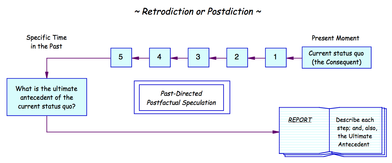 Taken from page 146 of Yeates, L.B., Thought Experimentation: A Cognitive Approach, Graduate Diploma in Arts (By Research) dissertation, University of New South Wales, 2004.